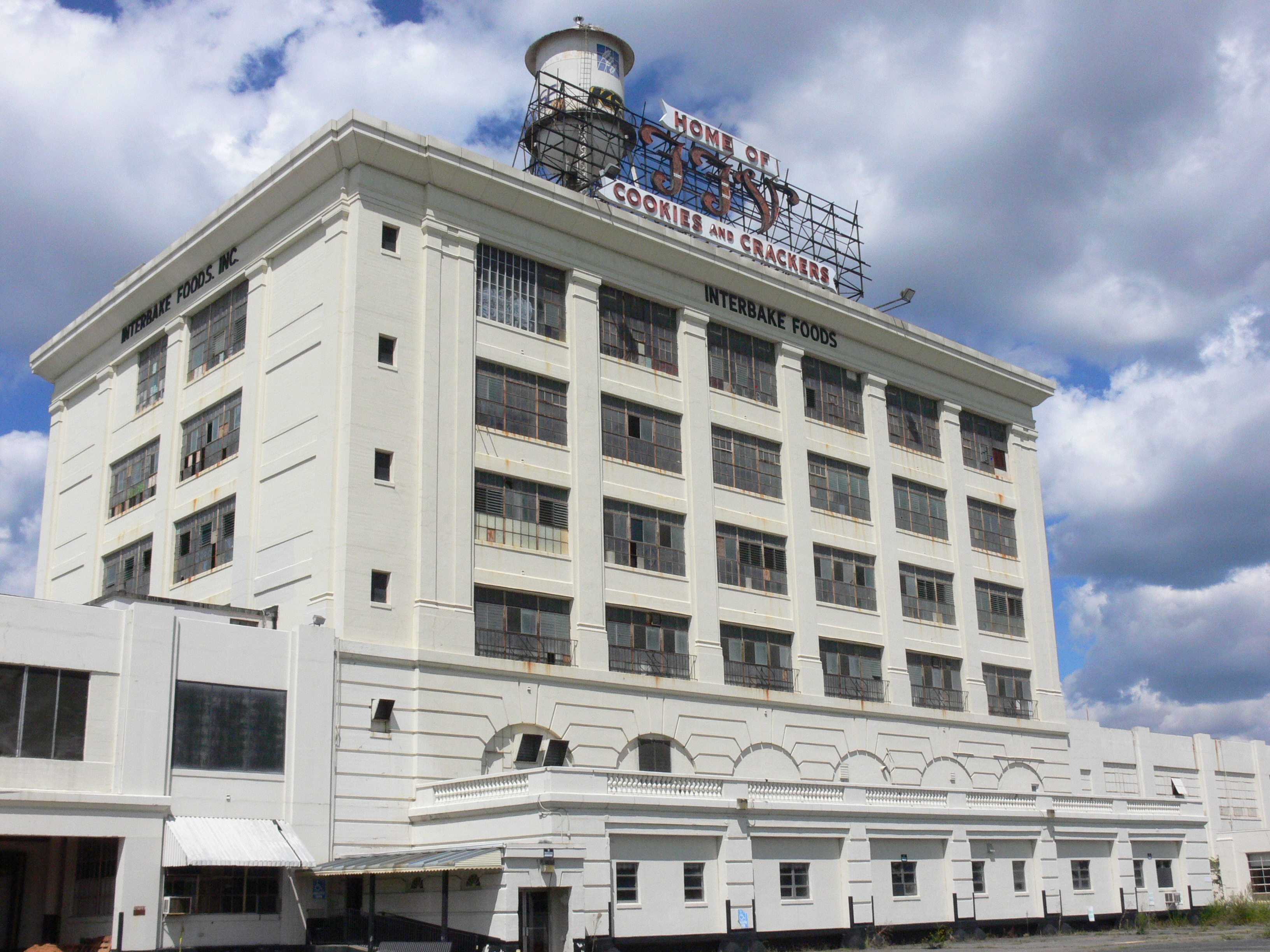 The former Interbake Foods / Fine Flours of Virginia / Southern Biscuit Company Building in Richmond, Virginia, after its decomission as a bakery.